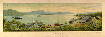 Seaport and coal station Sabang, schoolroom poster circa 1910.